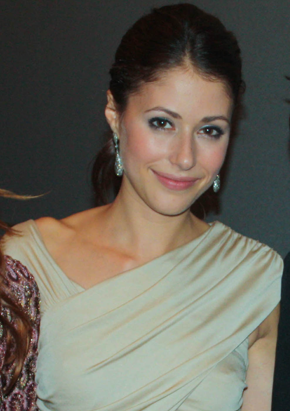 Canadian actress Amanda Crew at 2011 Repeaters movie world premiere TIFF 10